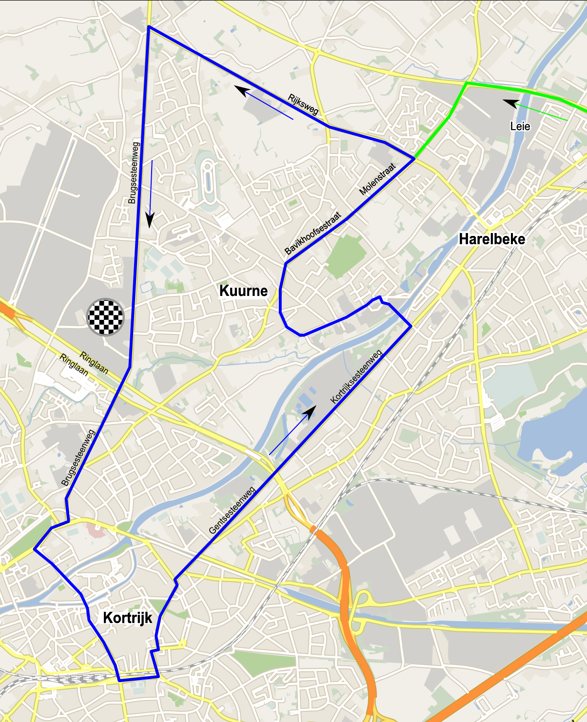 Kuurne-Bruxelles-Kuurnes 2016, urban circuit.